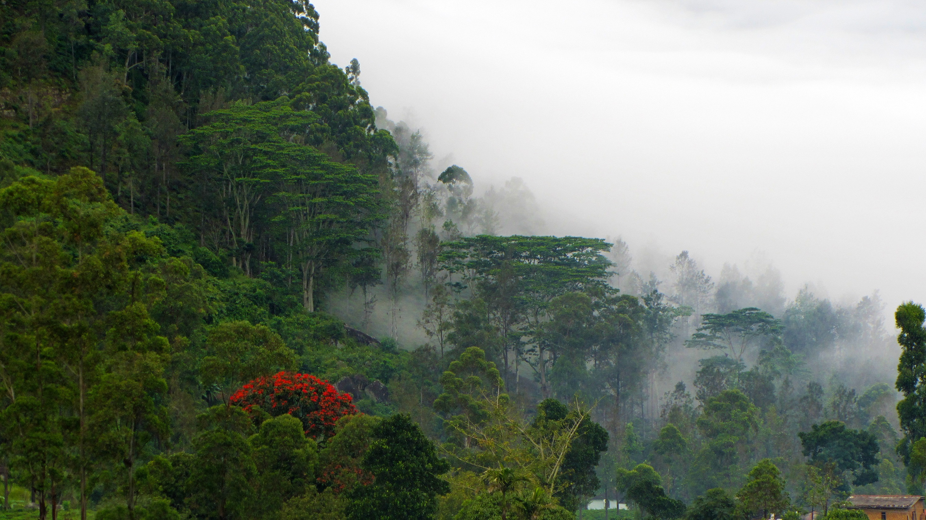 Views from Walapane, Sri Lanka.